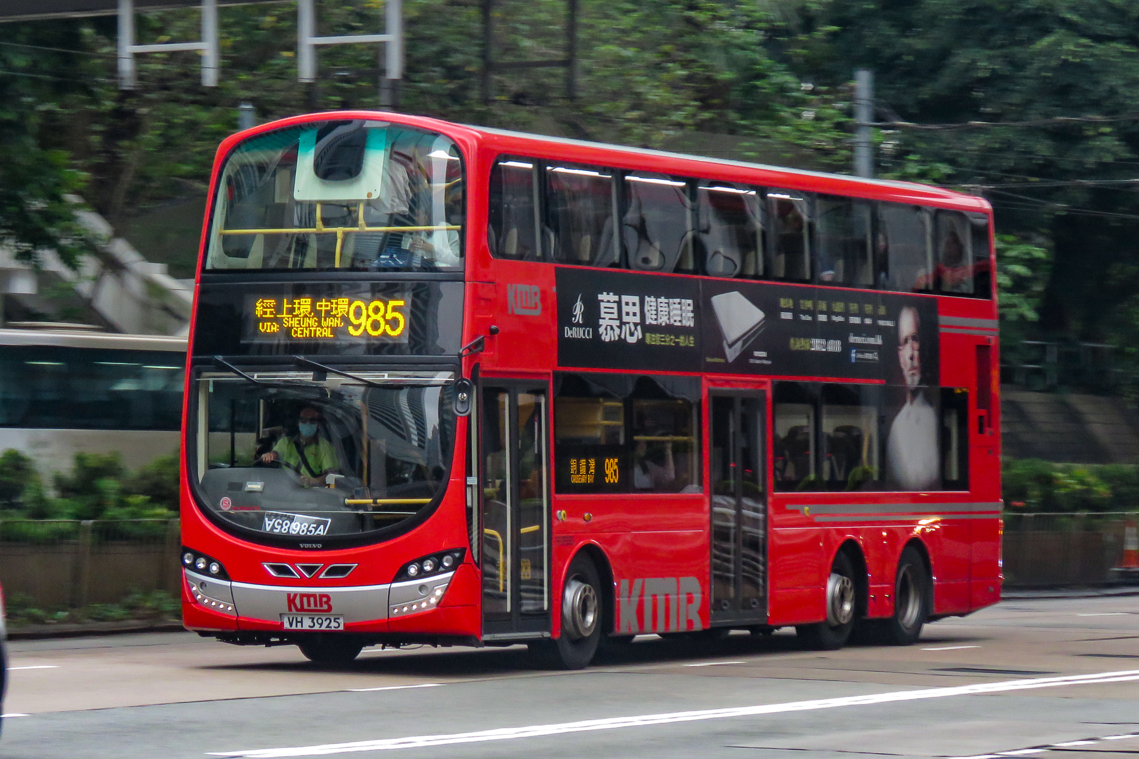 It didn't adjust the display to 985A - a cardboard is placed instead.